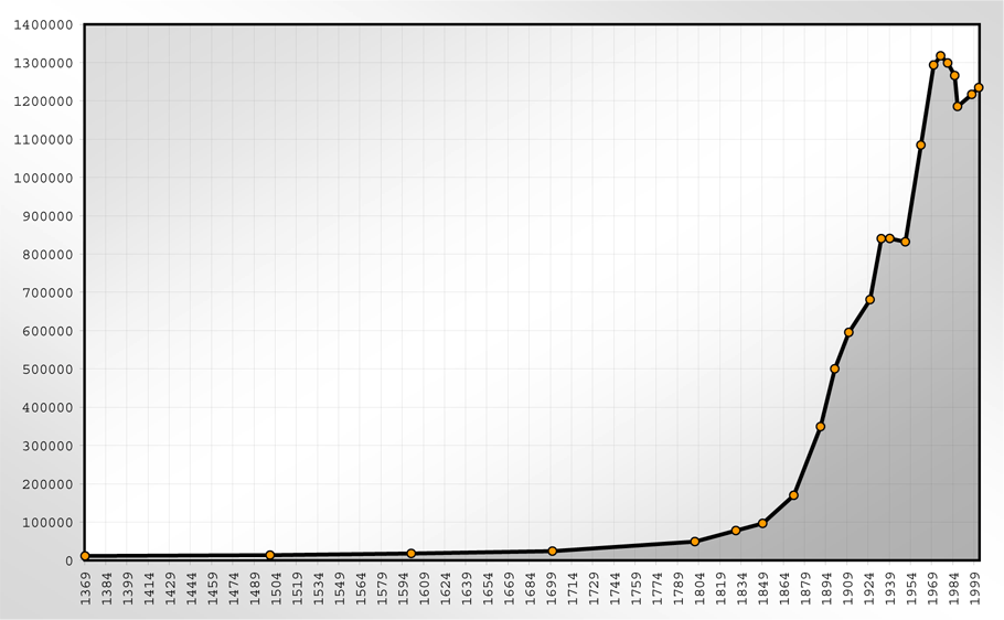 This image shows the population statistics of München (Germany).